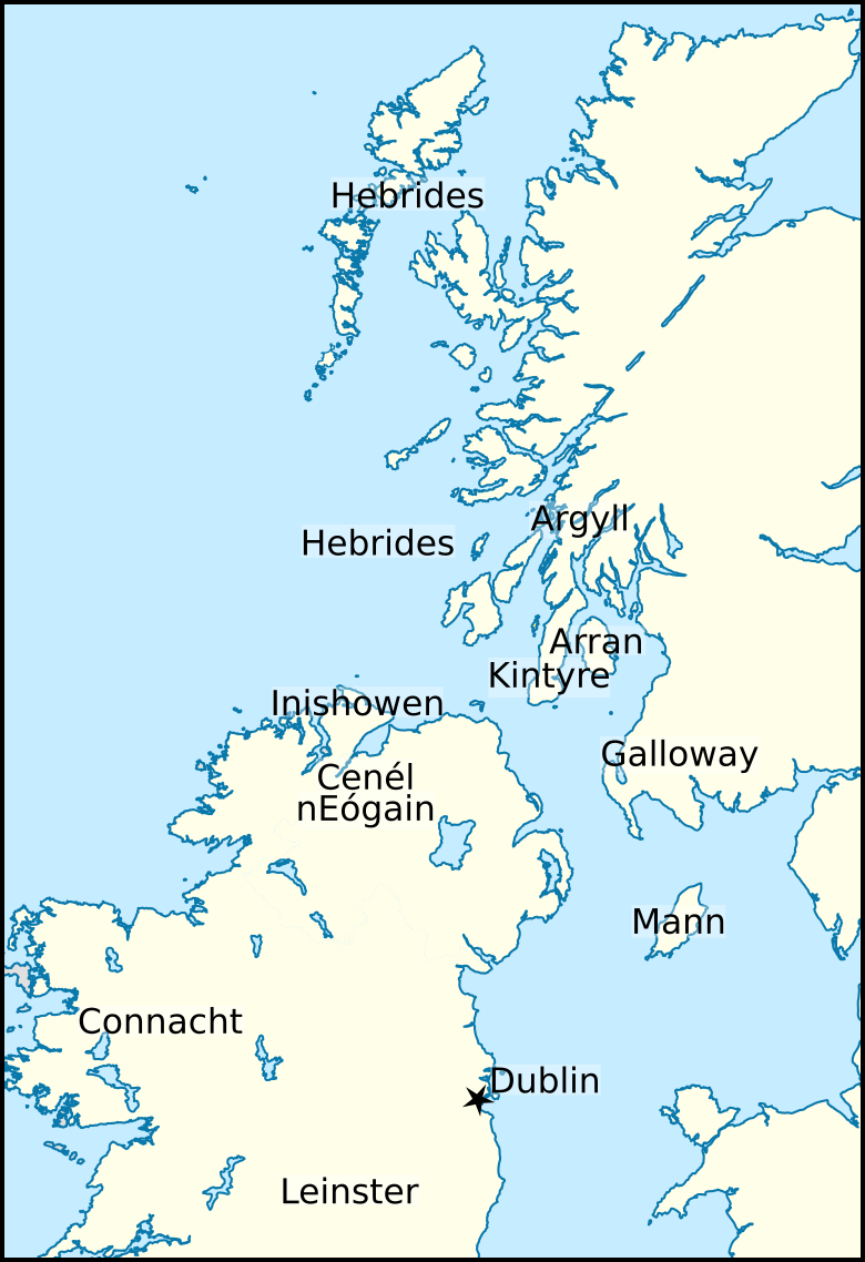 Map created for the Wikipedia article concerning Mac Scelling.